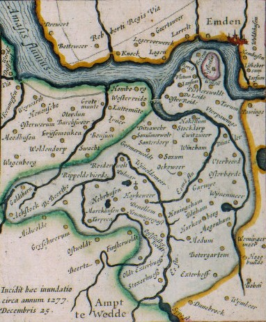 Map of sunken places in the Dollart estuarium (between approximately 1300 and 1500), made by the Dutch historicus Ubbo Emmius in 1630 on the basis of research by Jacob van der Meersch in 1574